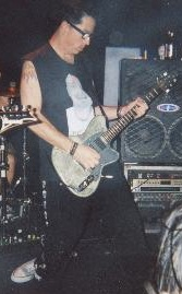 Kevin 'Noodles' Wasserman from the band The Offspring. Photo taken in 1998 at a gig in London by M.Fincham.